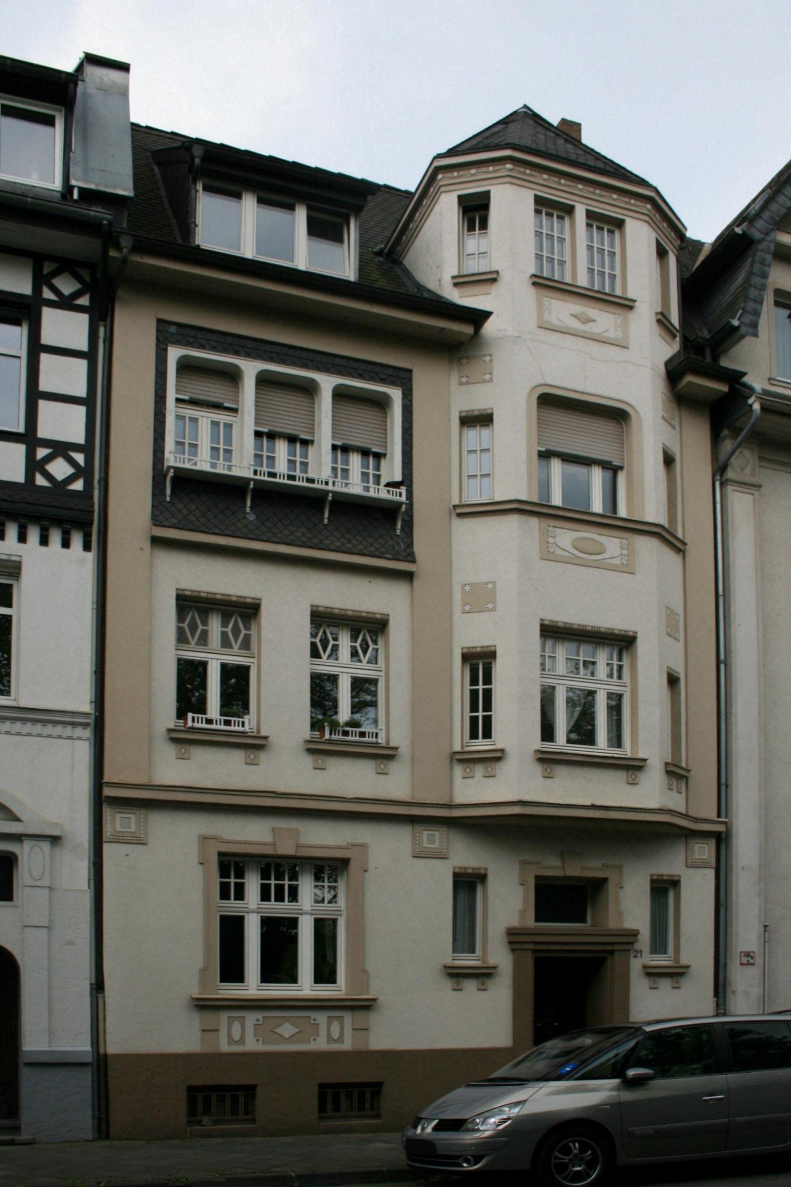 Cultural heritage monument No. B 043 in Mönchengladbach